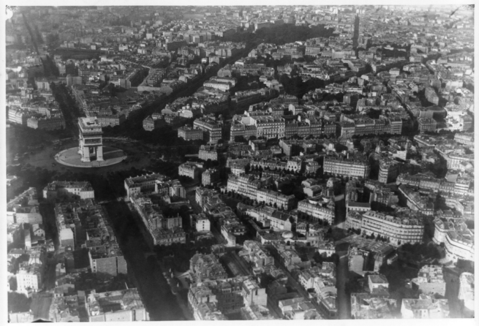 Aerial view of Paris, France, from balloon, showing the Arc de Triomphe at left center